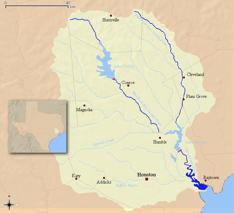 Map of the San Jacinto River watershed in southeast Texas — with its mouth at Galveston Bay. Credits I, Kuru, created from data originating at the USGS.